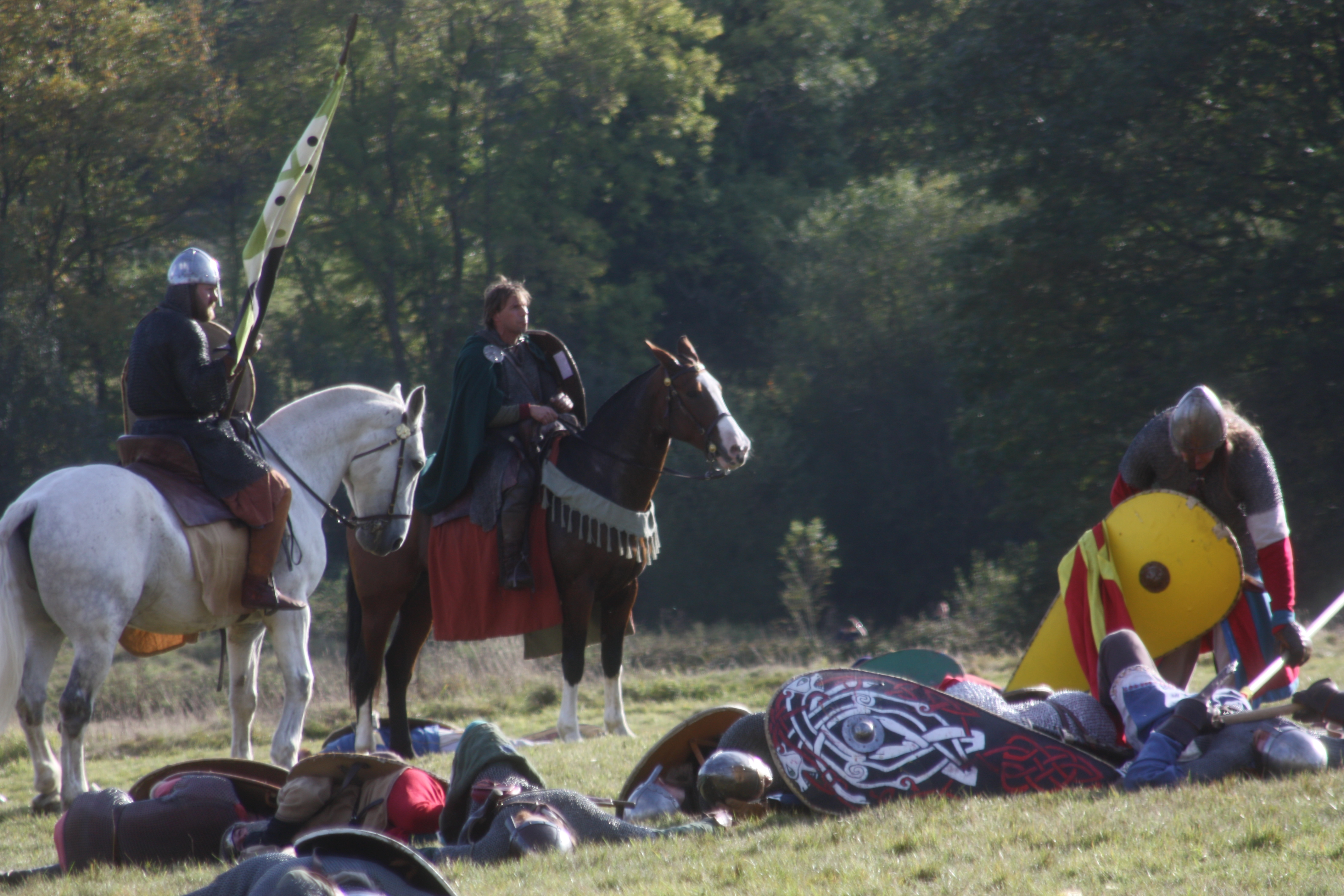 Recreation of Battle of Hastings, Hastings